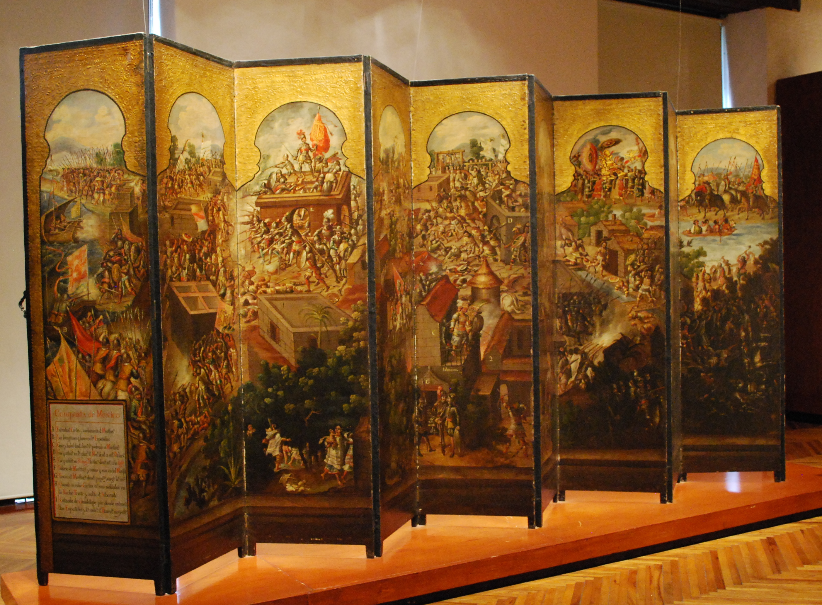 Screen depicting the conquest of Mexico from the 17th century at the Franz Mayer museum in Mexico City